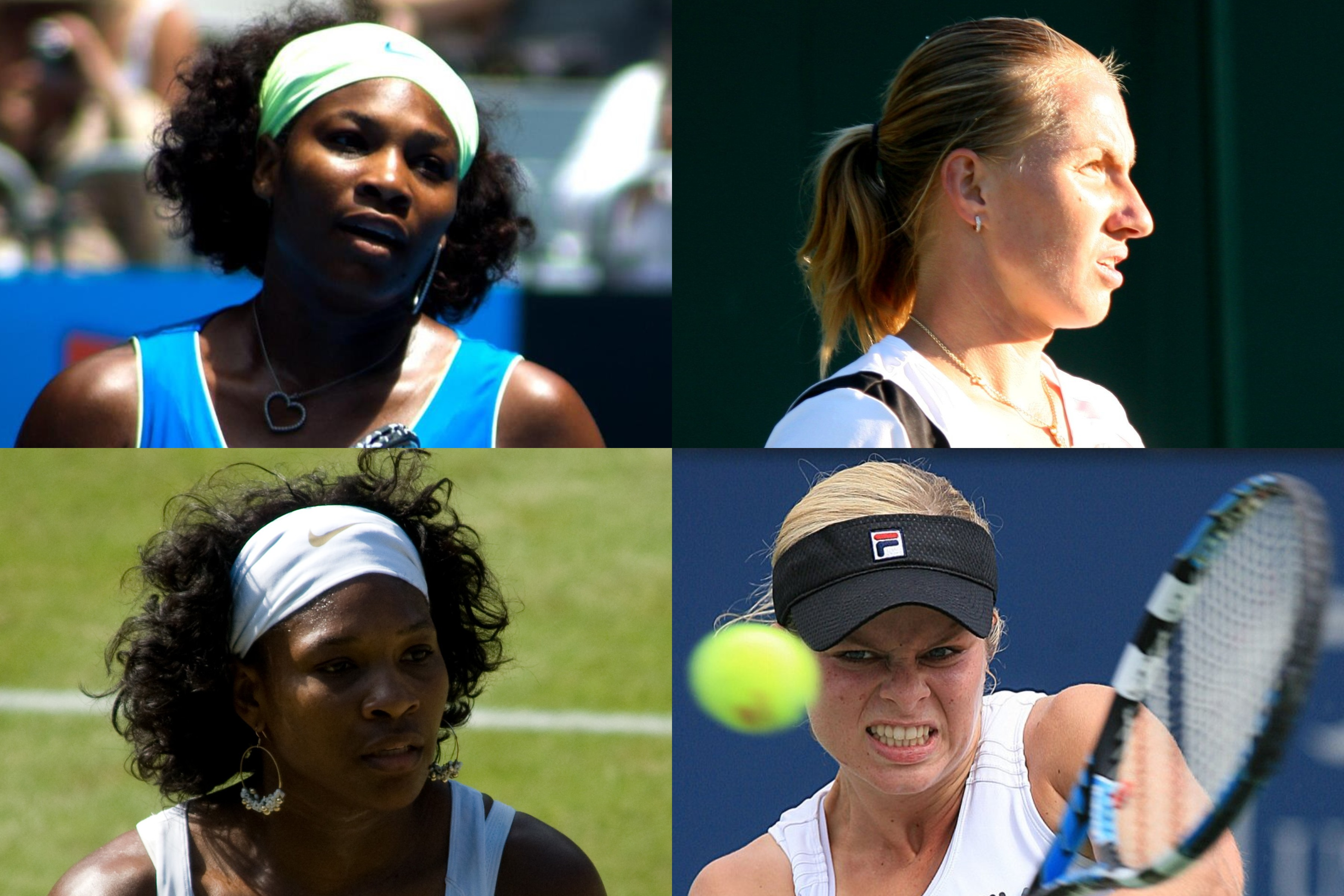 merged from four Wikipedia Commons images